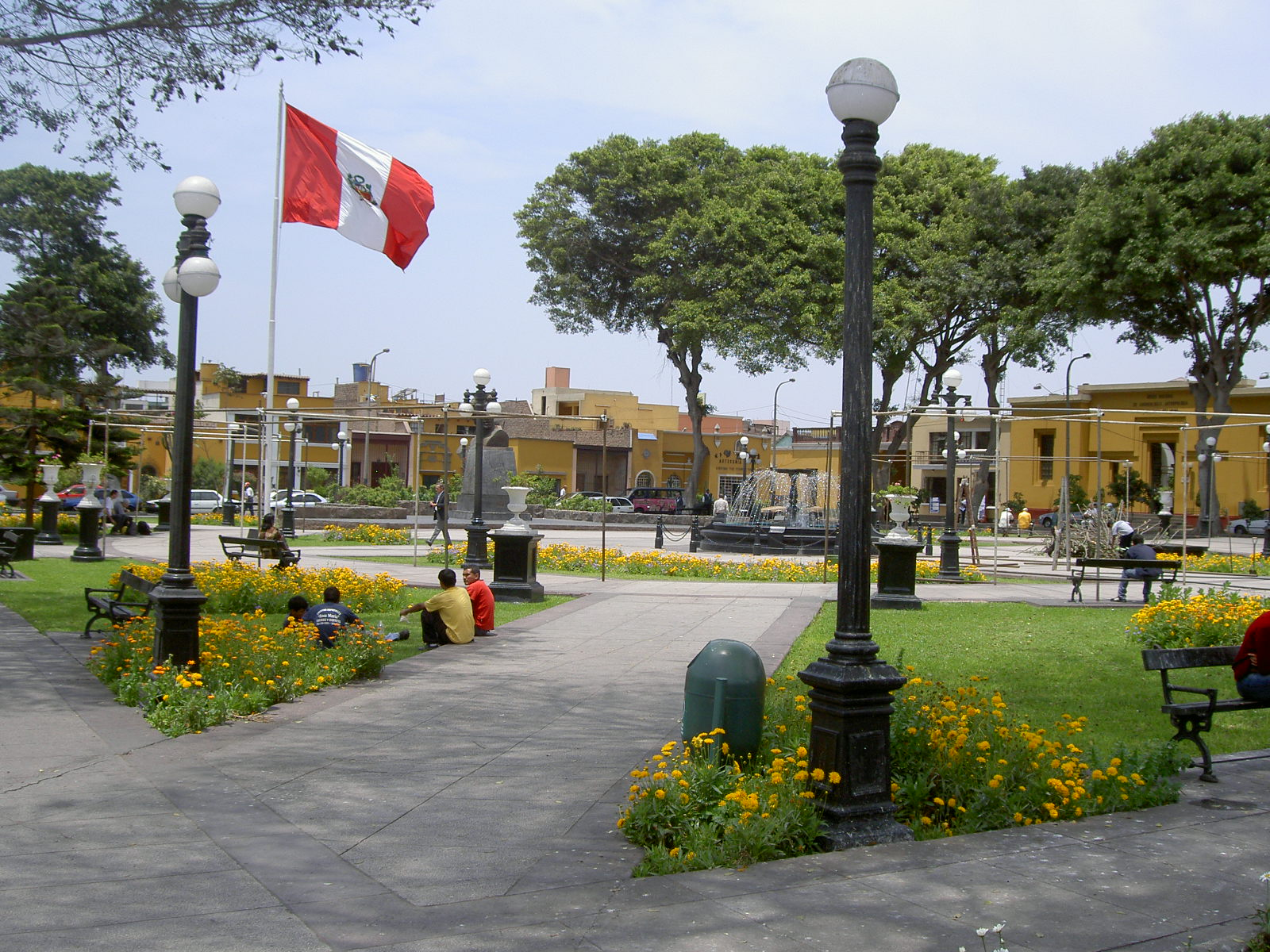 Plaza Bolívar, the main square in the Pueblo Libre district of Lima.